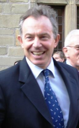 UK prime minister Tony Blair in Osnabruck, Germany